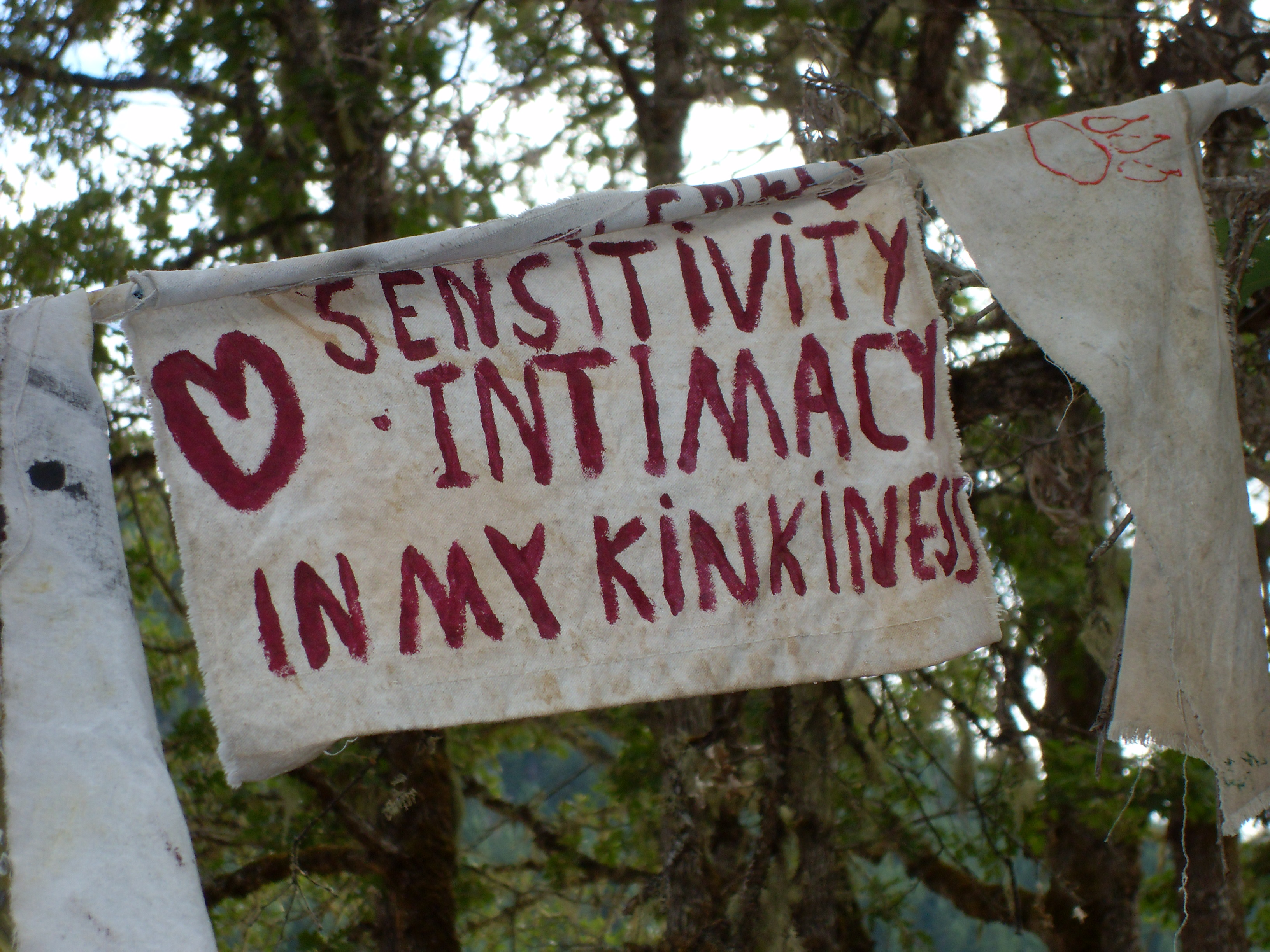 Banner with Philosophie of Radical Faeries